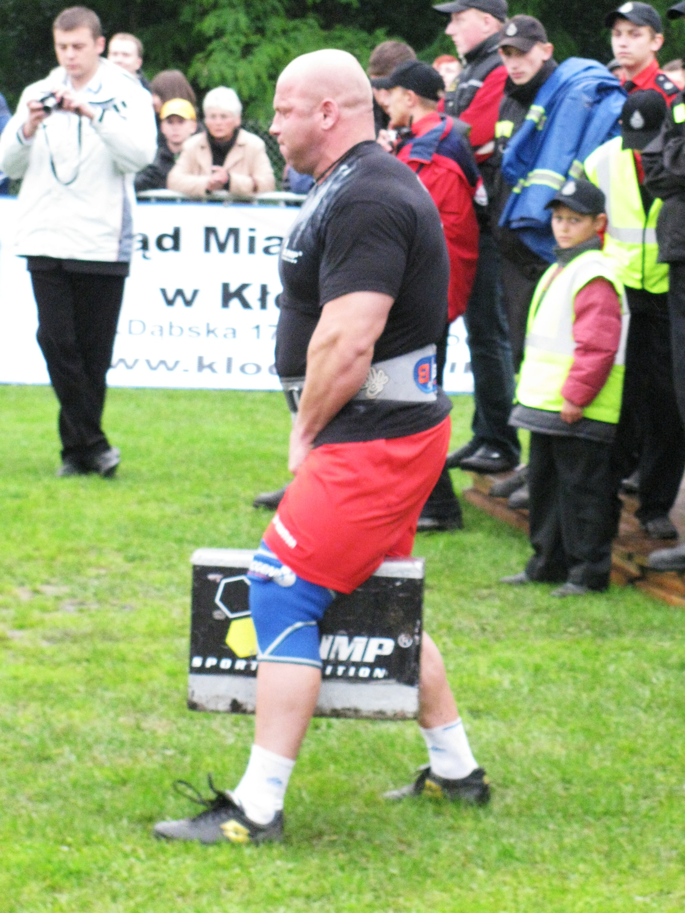 Strongmen exercise: the Duck Walk by Robert Szczepański.